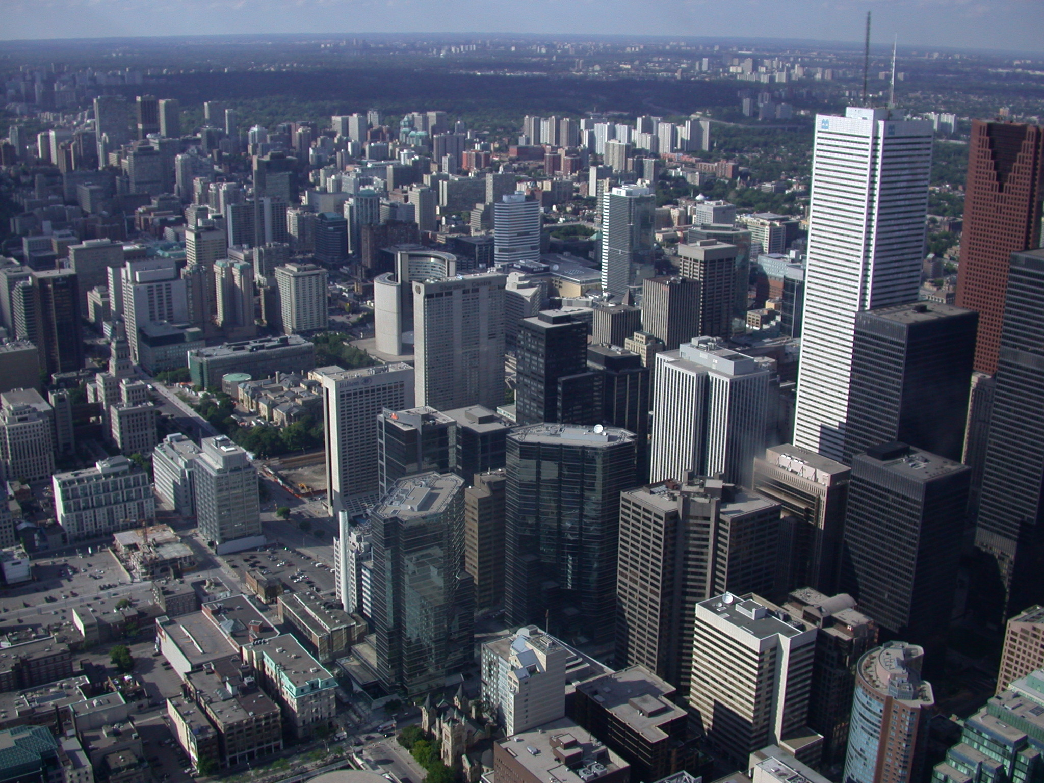 View from CN Tower, Toronto, Canada.